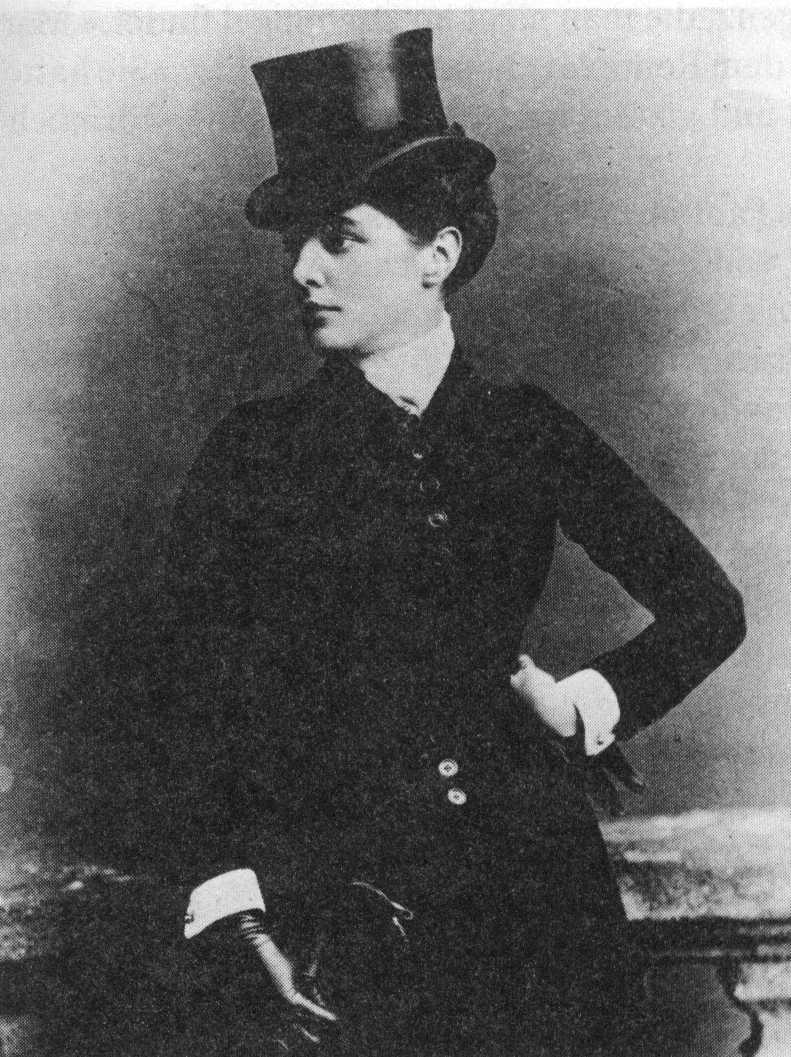 Jennie Churchill in 1877.